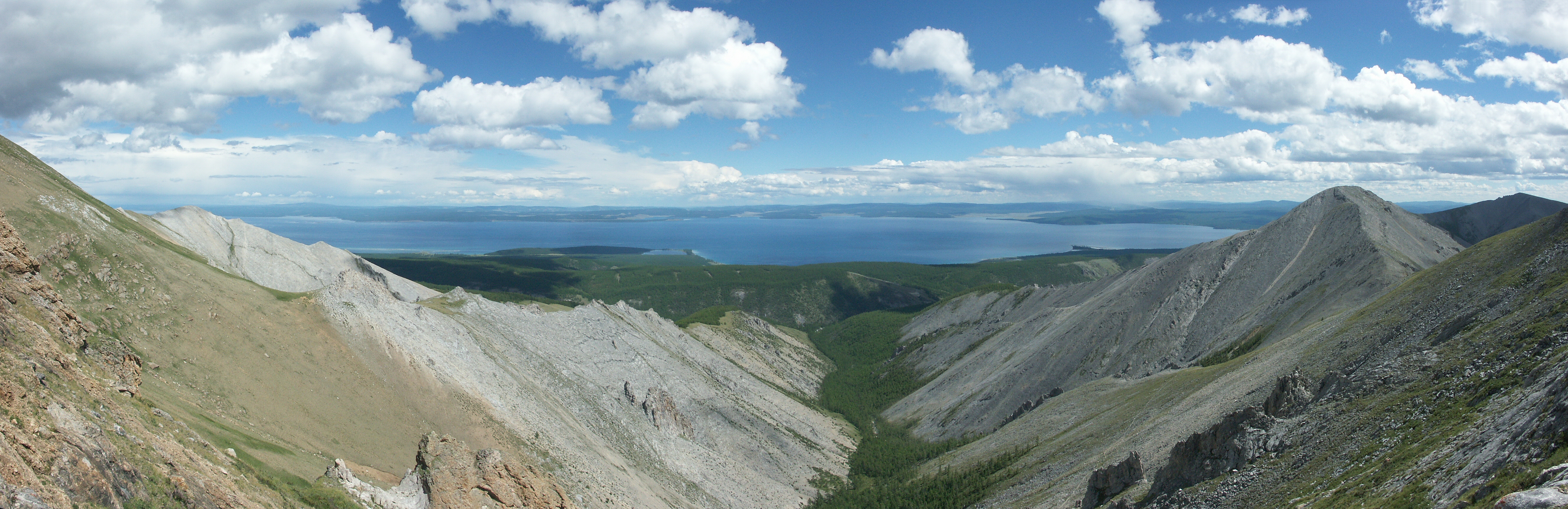 Panoramic view of Lake Khövsgöl from the mountains to the west of the lake.